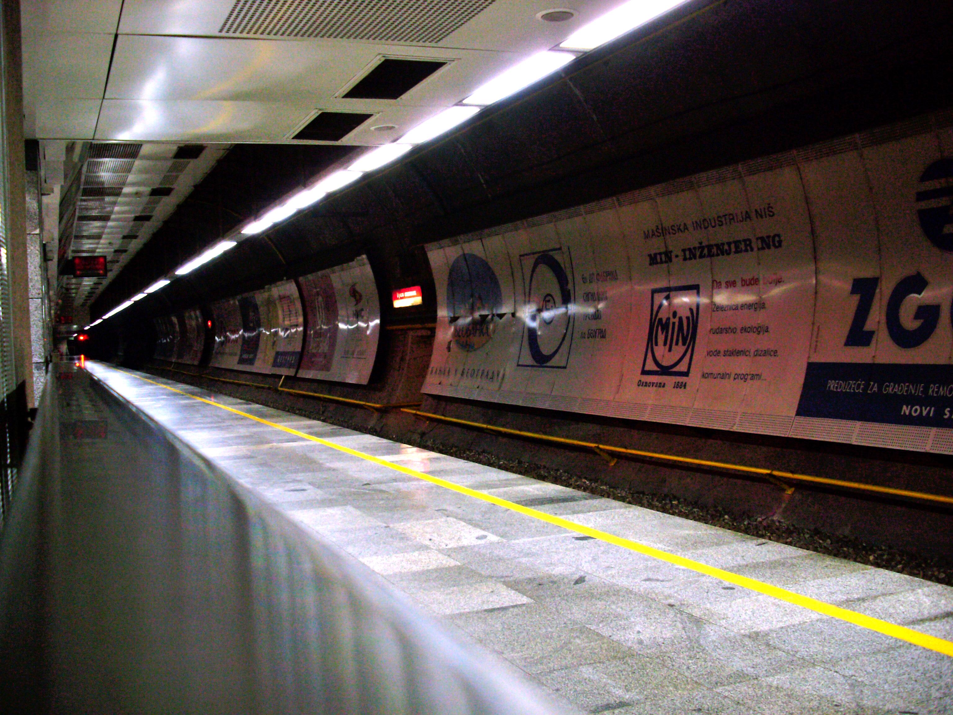 Vukov spomenik railway station in Belgrad, Serbia